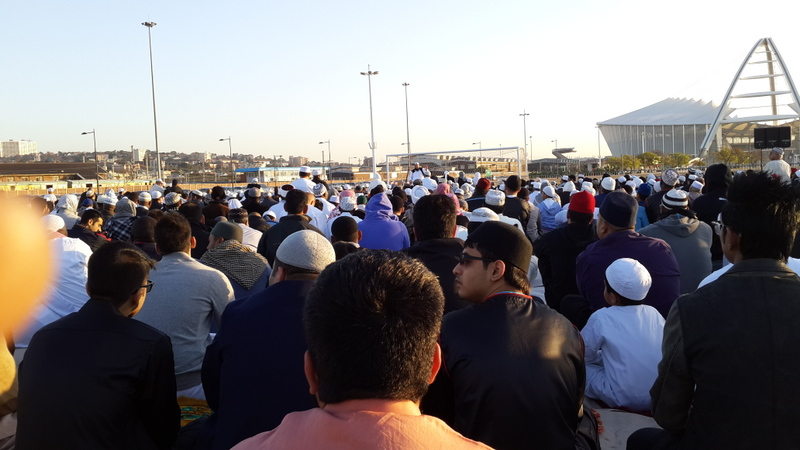 Eid celebration 2014 in Durban This is an image of food from South Africa